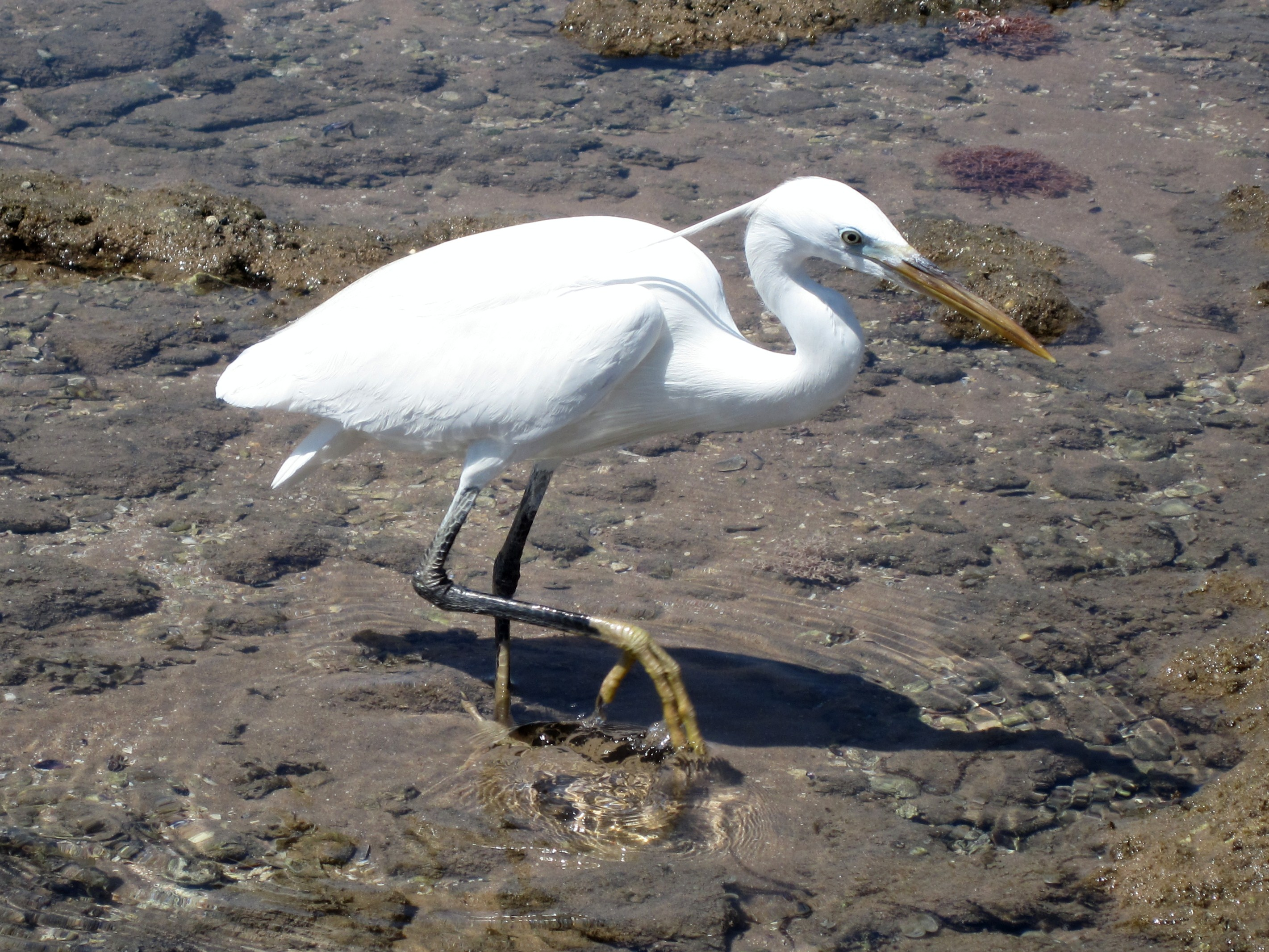 Western reef egret (Egretta gularis) south of Hurghada at the Red Sea, Egypt